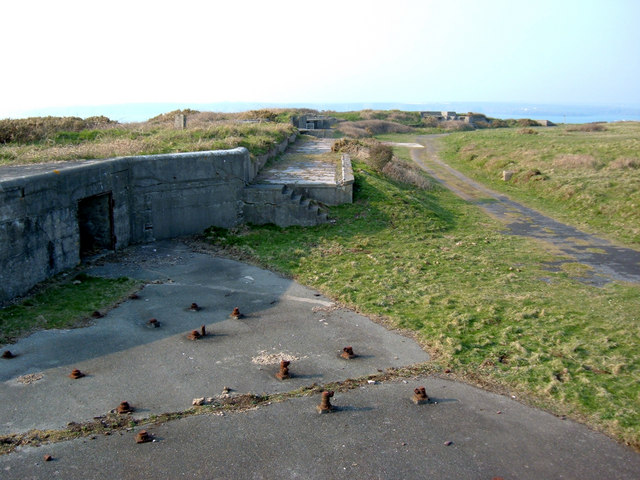 Gun Emplacements In 1901-04 massive gun emplacements were built close the 16th century gun tower. This latter site was in use during World War 2 during which a large camp was constructed as well as several dispersed installations such as searchlight batteries and gun emplacements.